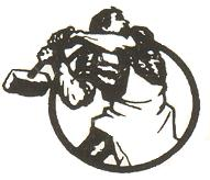 Early Comintern Graphic, Currently ICC Logo